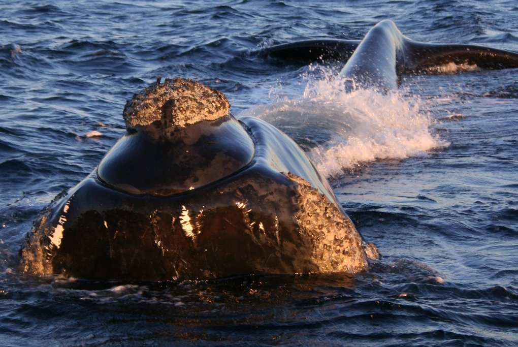 Southern right whale (Peninsula Valdés, Patagonia, Argentina)